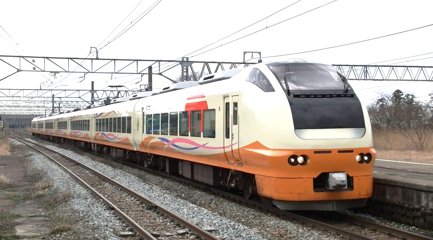 JR East E653-1000 series EMU set U101 passing through Sakamachi Station on the Uetsu Main Line on the Inaho 5 limited express service